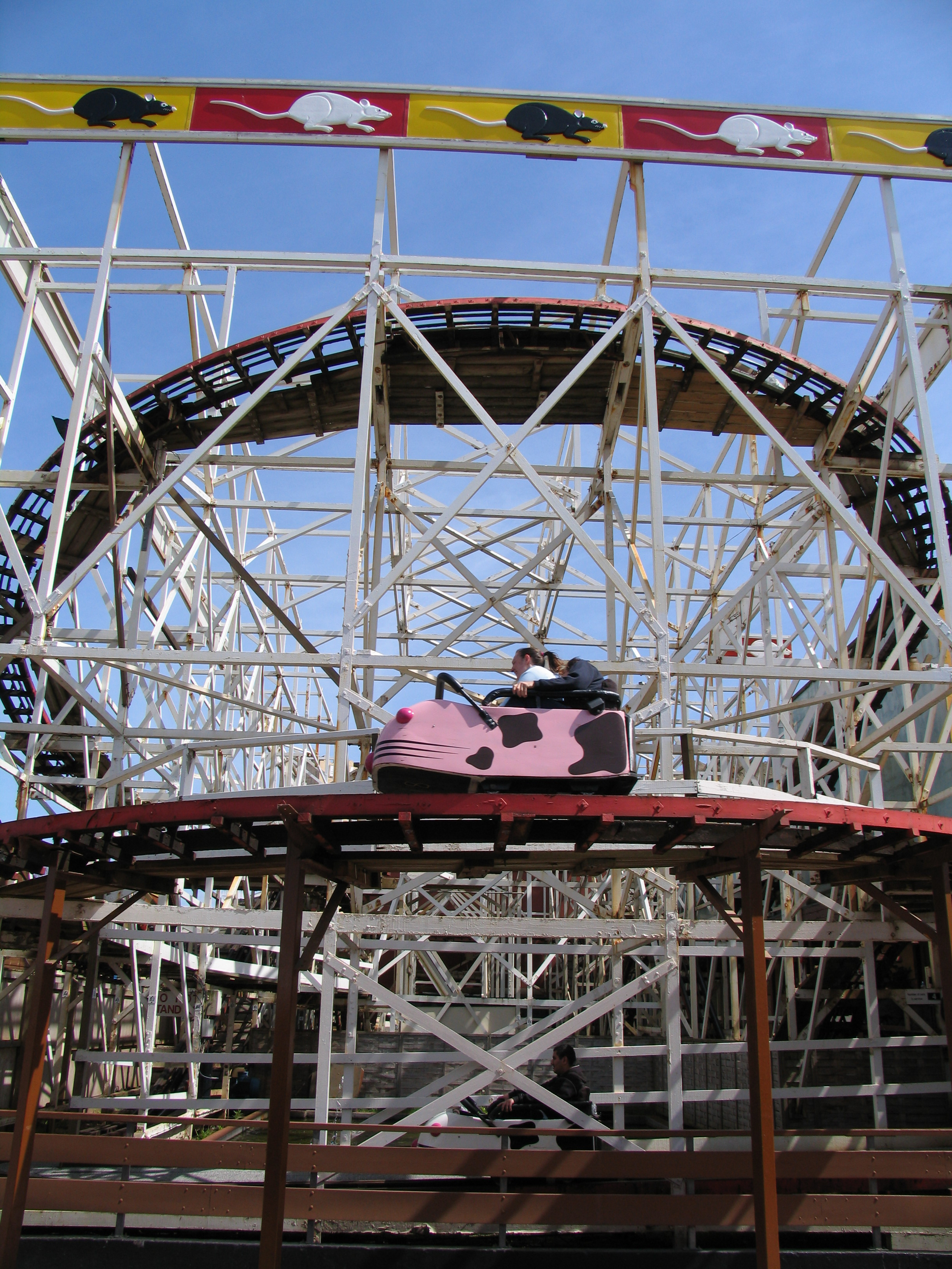 Wooden Wild Mouse at Blackpool Pleasure Beach